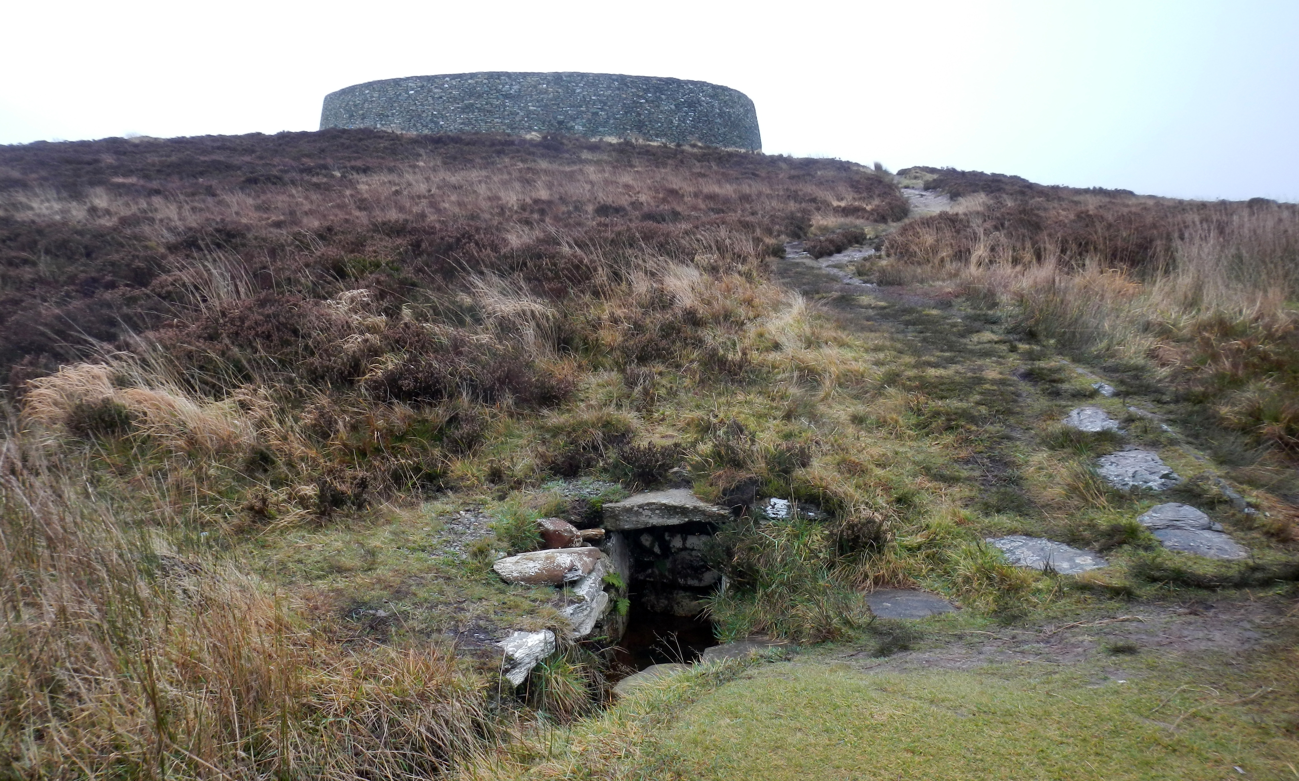 St. Patrick's Well at Grianan Ailligh, County Donegal, Ireland.